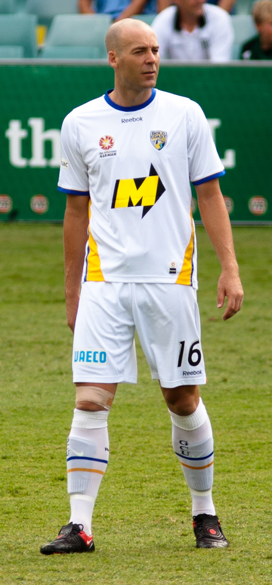 Kristian Rees playing for Gold Coast United against Sydney FC in the 2009-10 A-League.